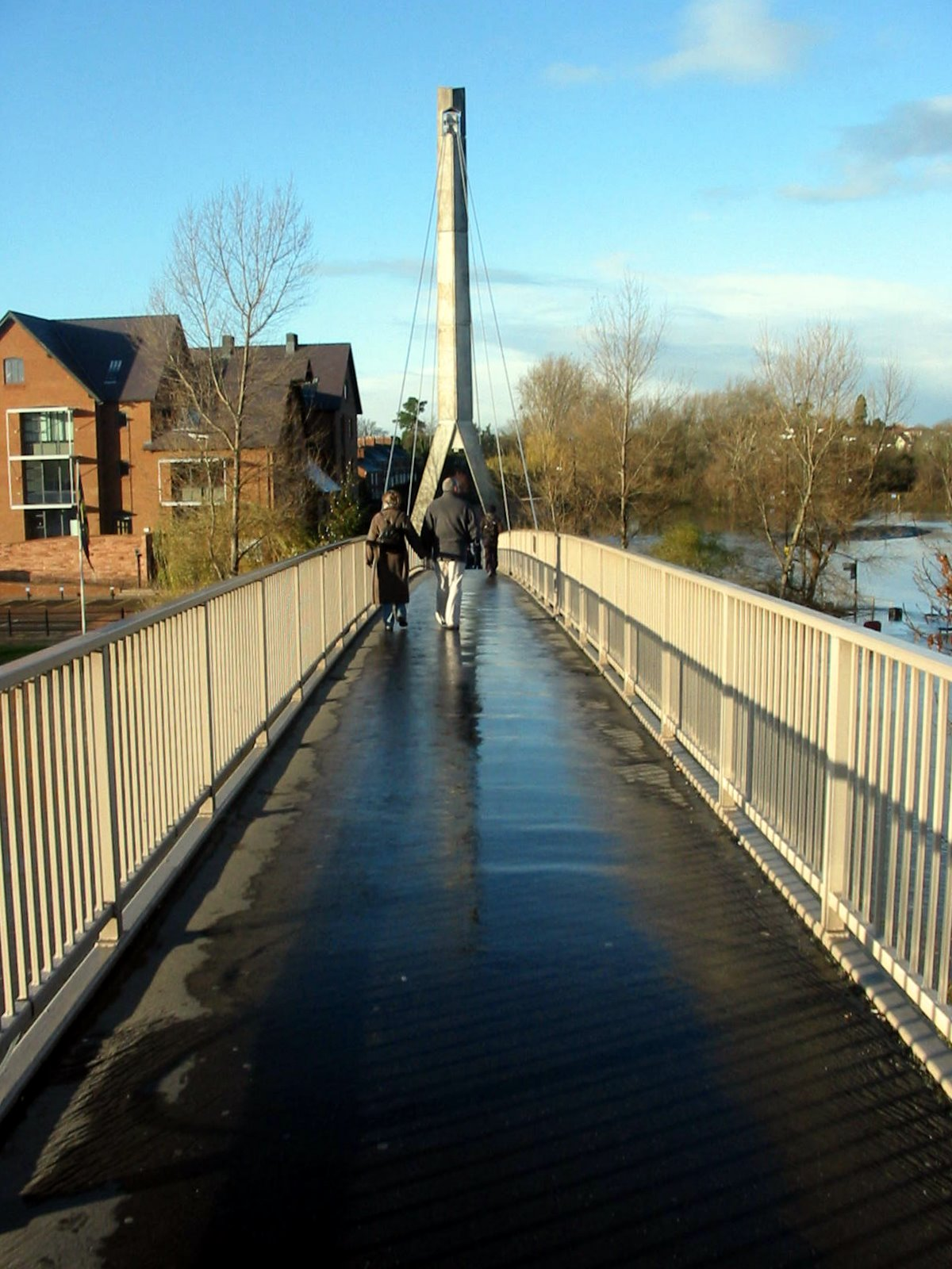 Frankwell Footbridge, connecting Frankwell with the centre of Shrewsbury, Shropshire. Photo taken by Chris Bayley using a Canon Powershot A20.